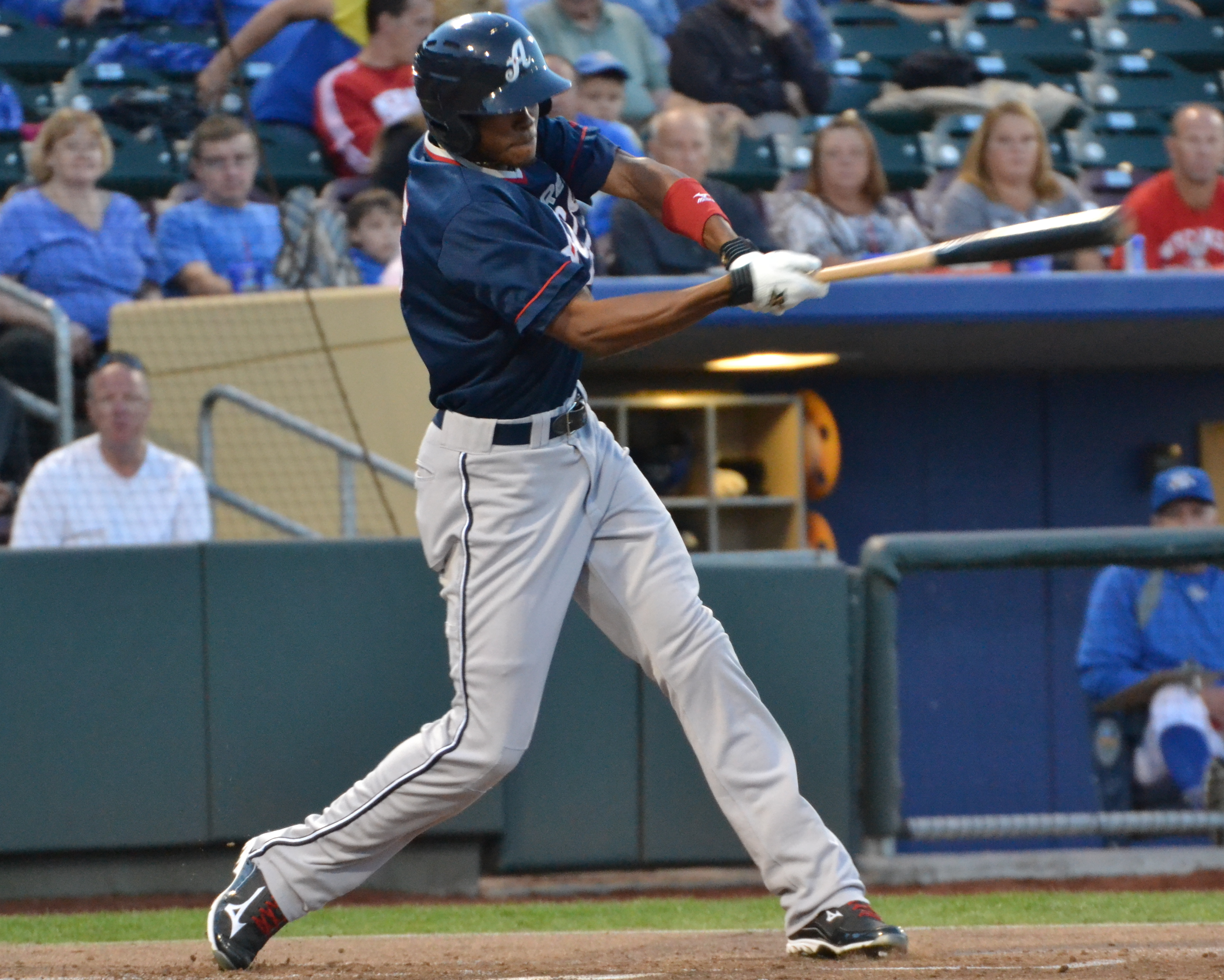 Keon Broxton with the Reno Aces in Omaha in 2012